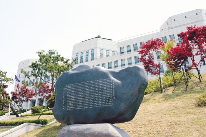 Jukjeon, Monument of The Prospectus to Establishment